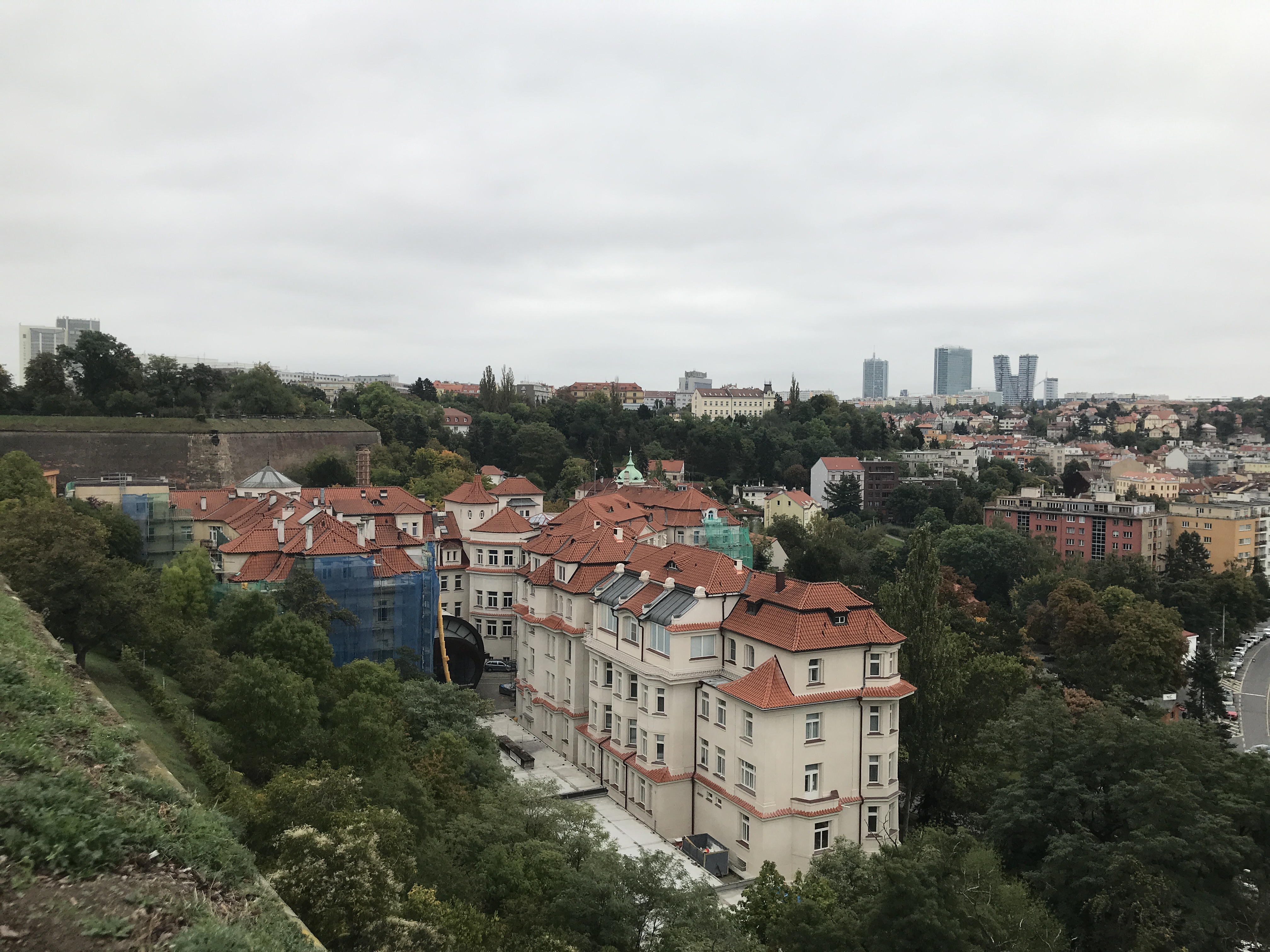 View of Pankrác and Ústav pro péči o matku a dítě Podolí in front